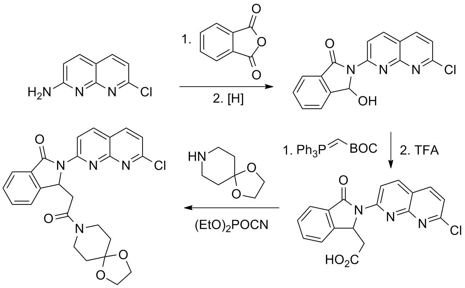 US4778801